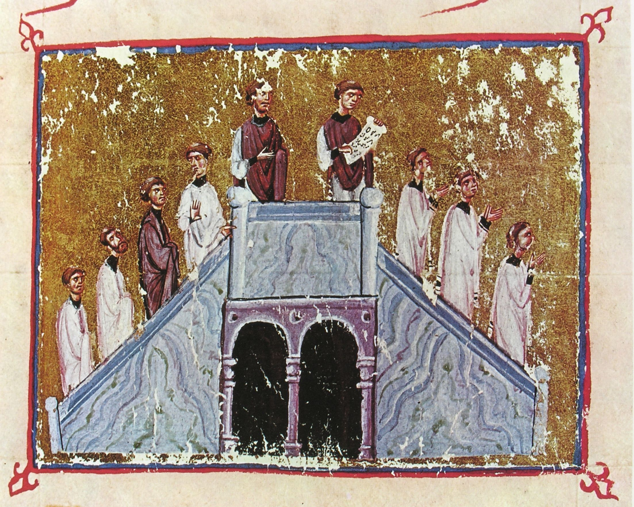 A host of priests and reading from the pulpit; Byzantium; 11th century .; monument: Gospel (Athos, Dionisiou 587); Location: Greece. Mount Athos, Dionysius Monastery